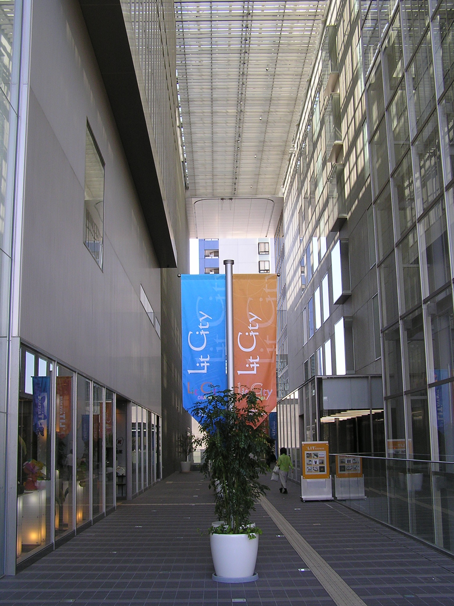 Open Corridor of Forum City Bldg.